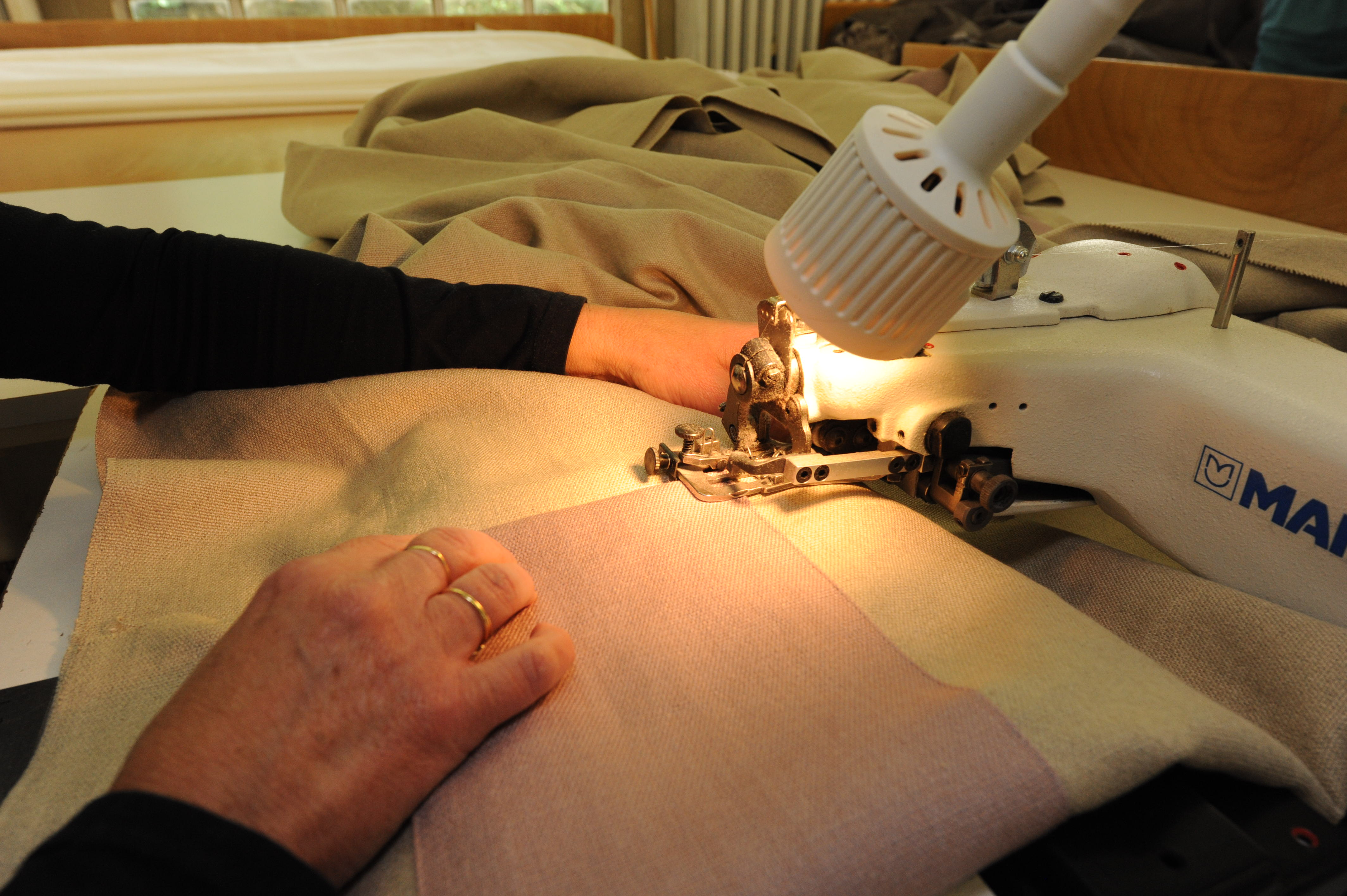 Confection